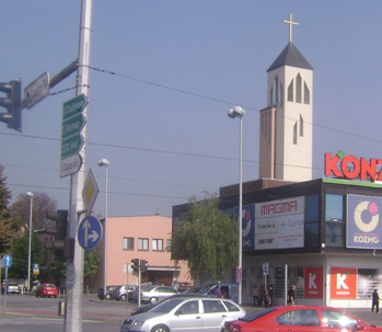 St.Joseph church in zagreb